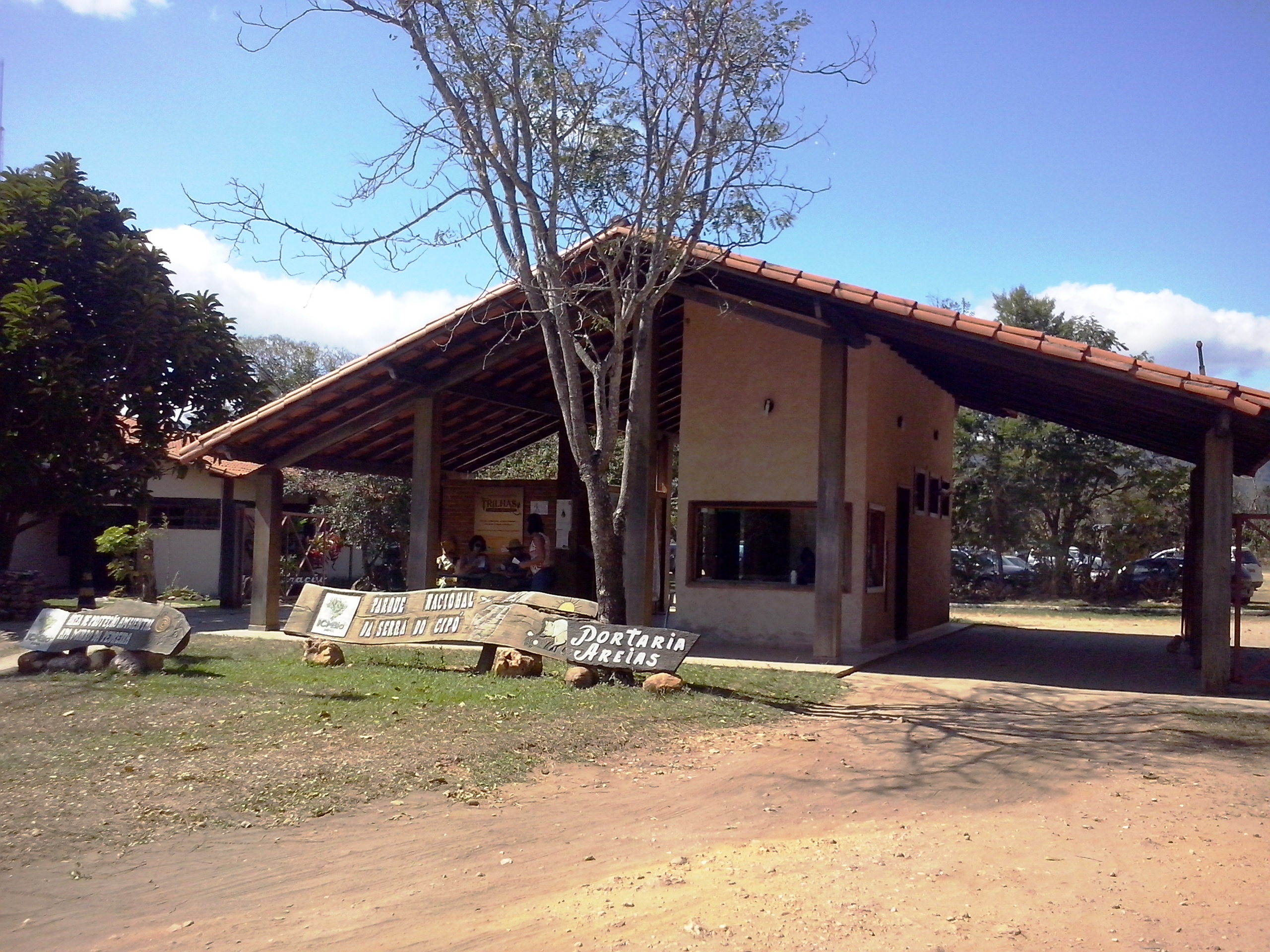 Entrance of the Serra do Cipó National Park, in Santana do Riacho, Minas Gerais, Brazil.